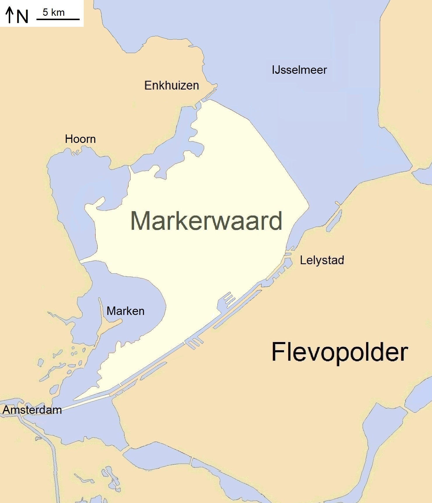 Markenwaard in the 1970's